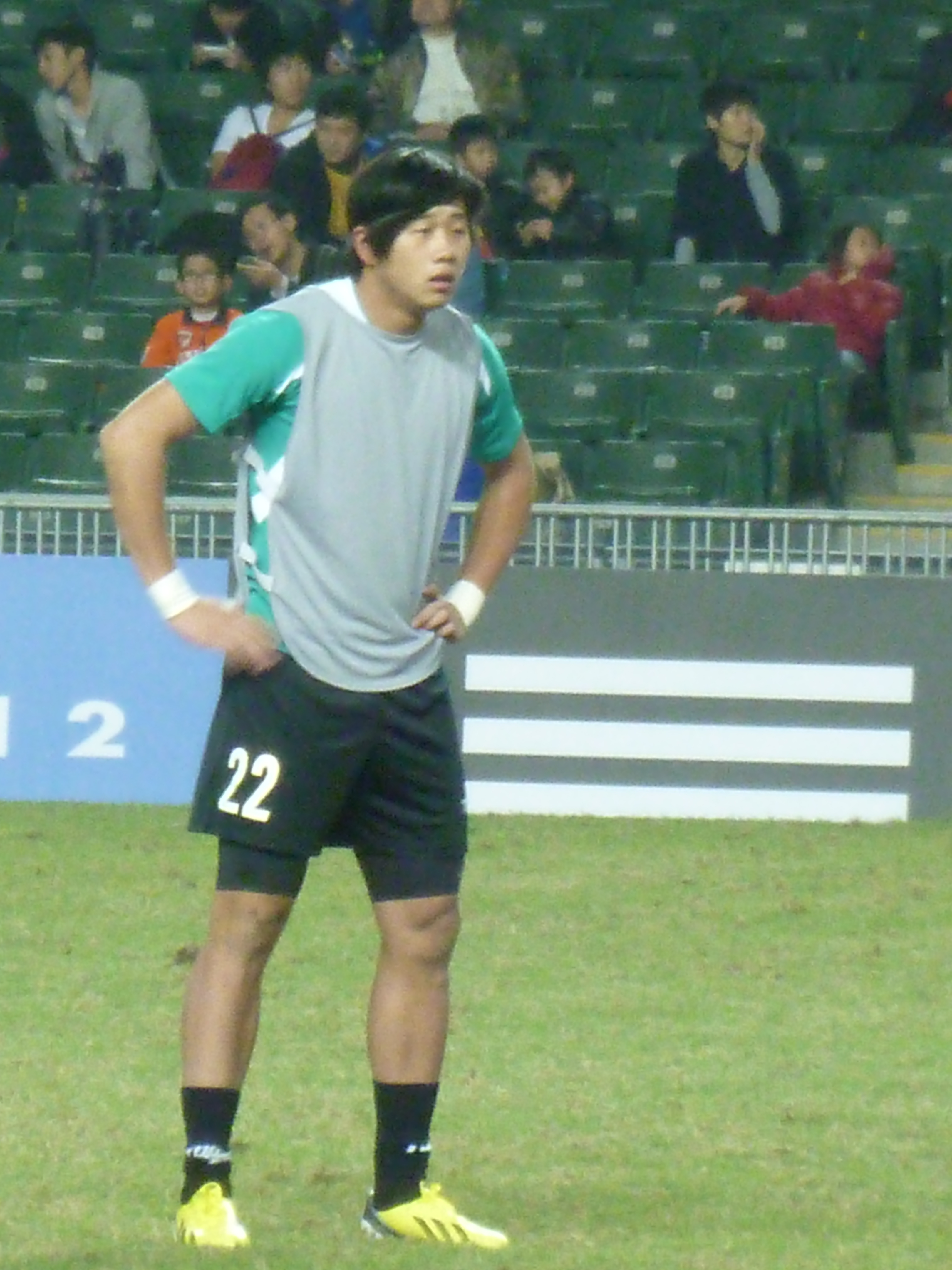 Pan Wen Chieh (9 Dec 2012, EAFF East Asian Cup 2013 Preliminary Competition Round 2, Australia vs Chinese Taipei, Hong Kong Stadium) 中文（香港）: 潘文傑 (9 Dec 2012, 2013東亞盃外圍賽第二圈, 澳洲 vs 中華台北, 香港大球場)